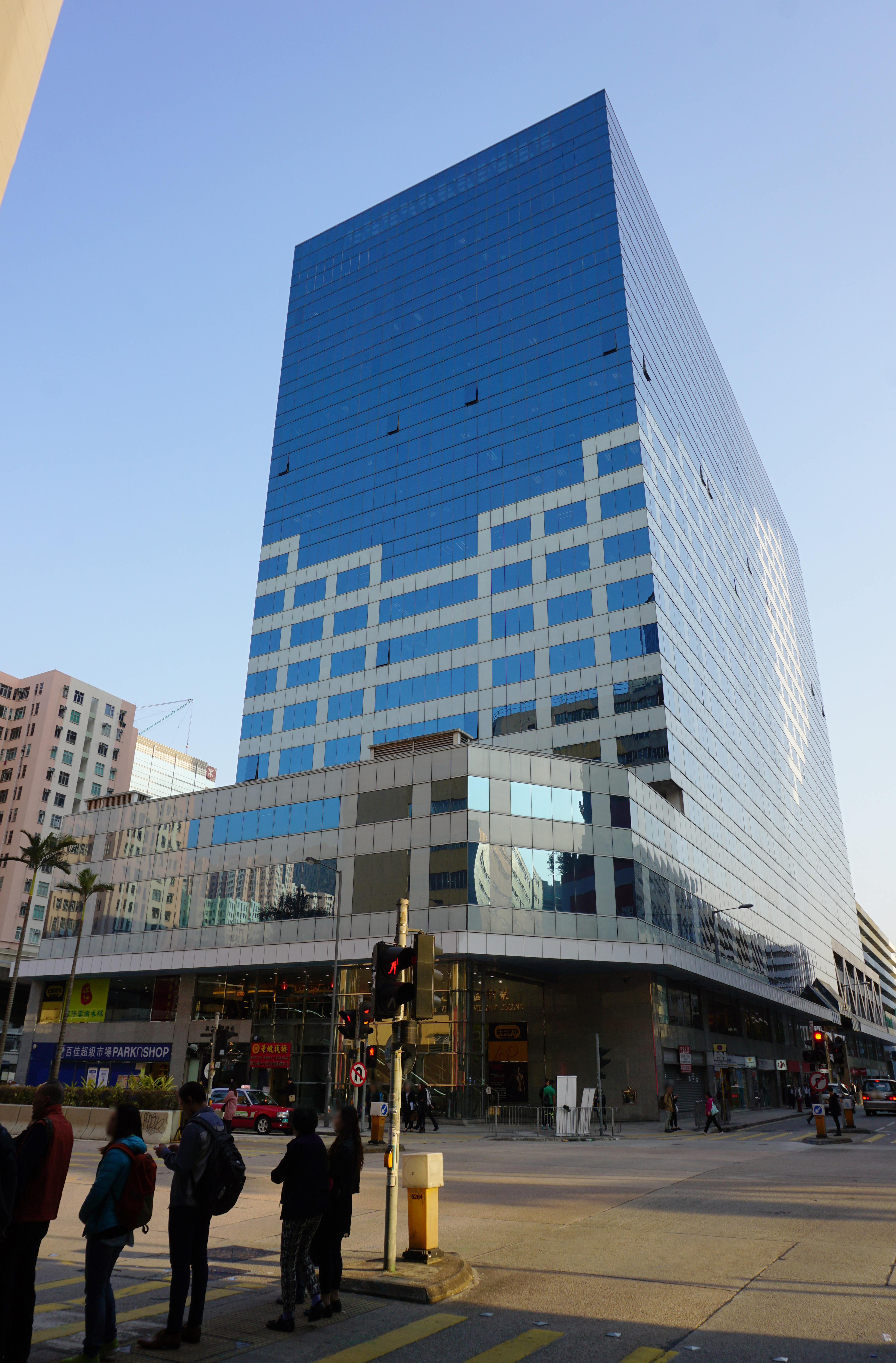 Chevalier Commercial Centre in Kowloon Bay, Hong Kong.